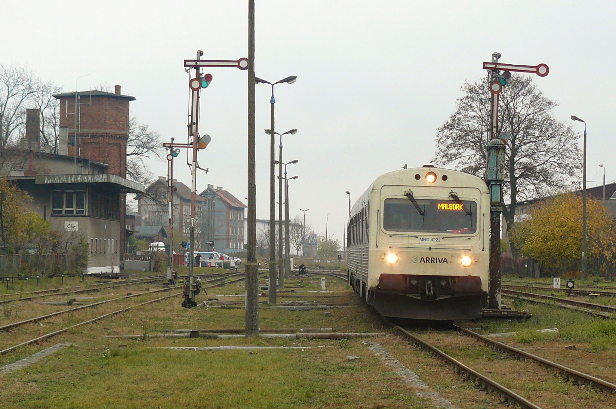 Chełmża. MRD 4222 (Arriva RP) from Toruń to Malbork.